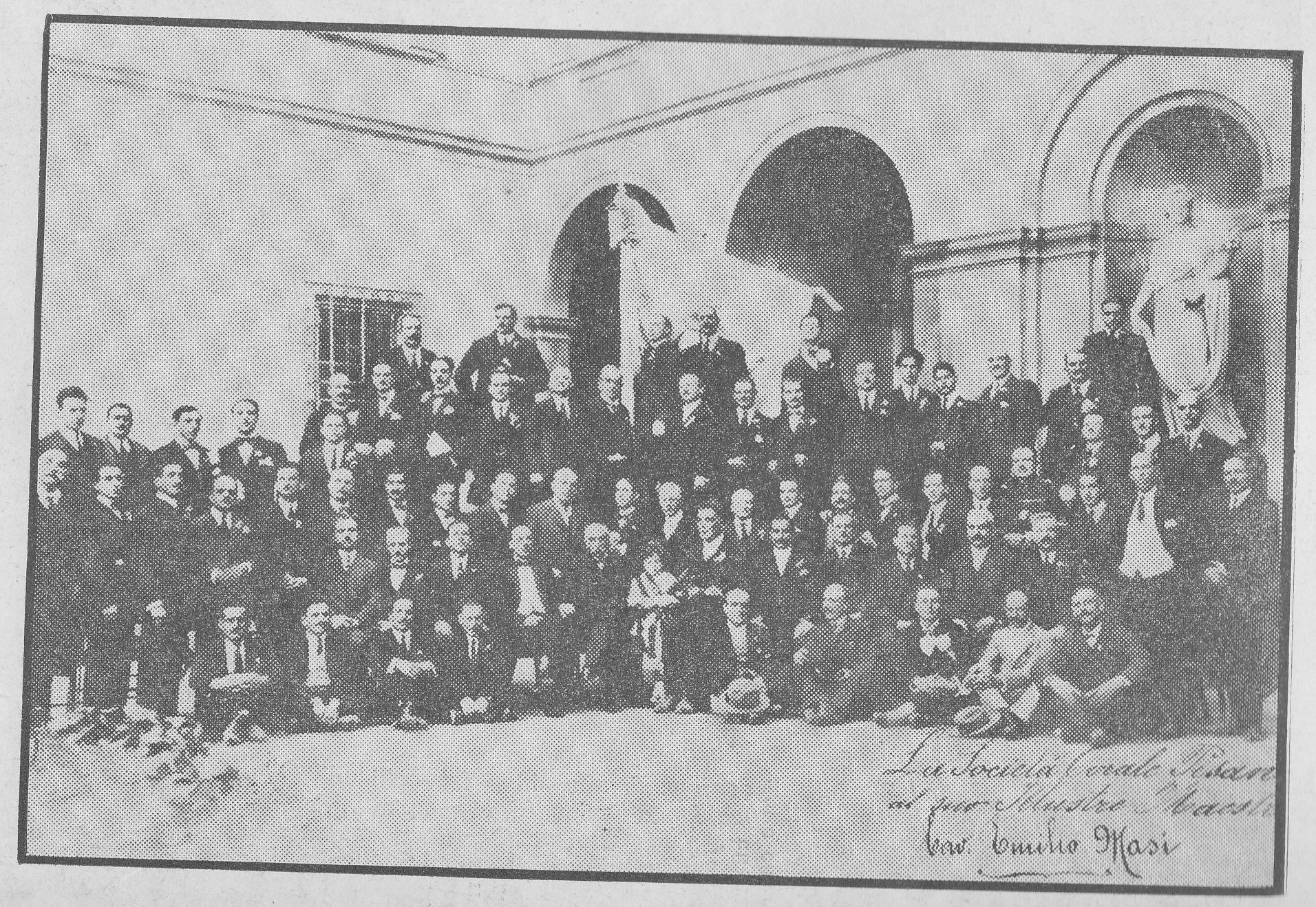 An old photo of the Choral Singing School of Pisa, Tuscany, Italy.